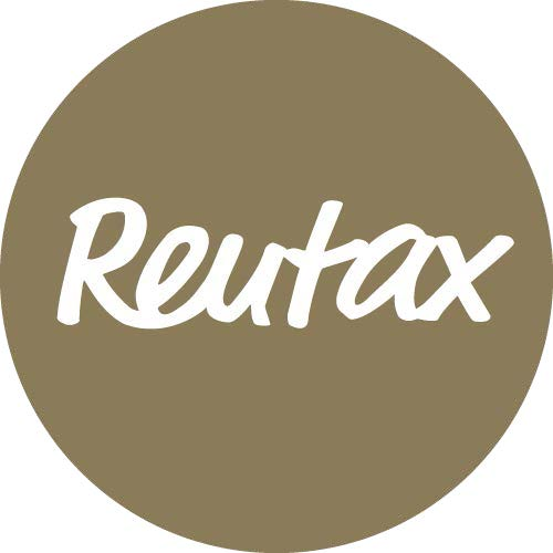 Company logo Reutax AG